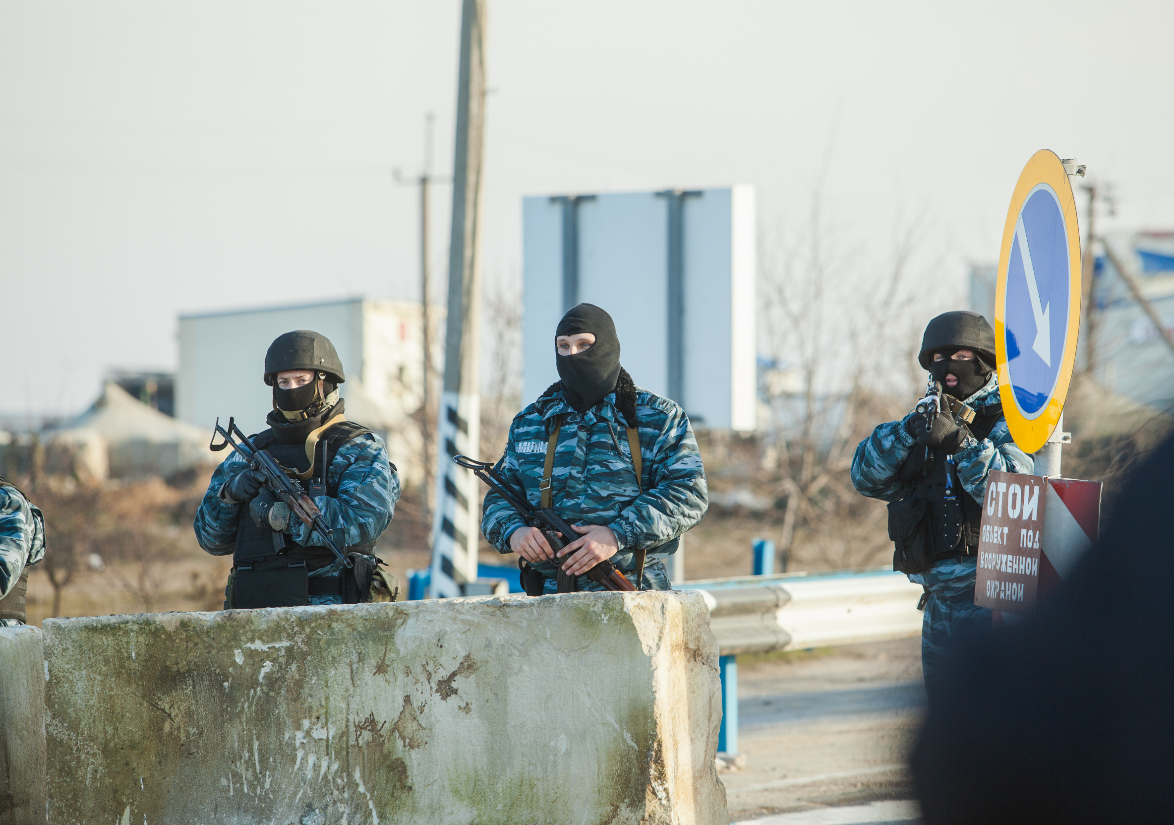 Berkut mans a checkpoint at the entrance to the Crimea Peninsular, March 10, 2014.